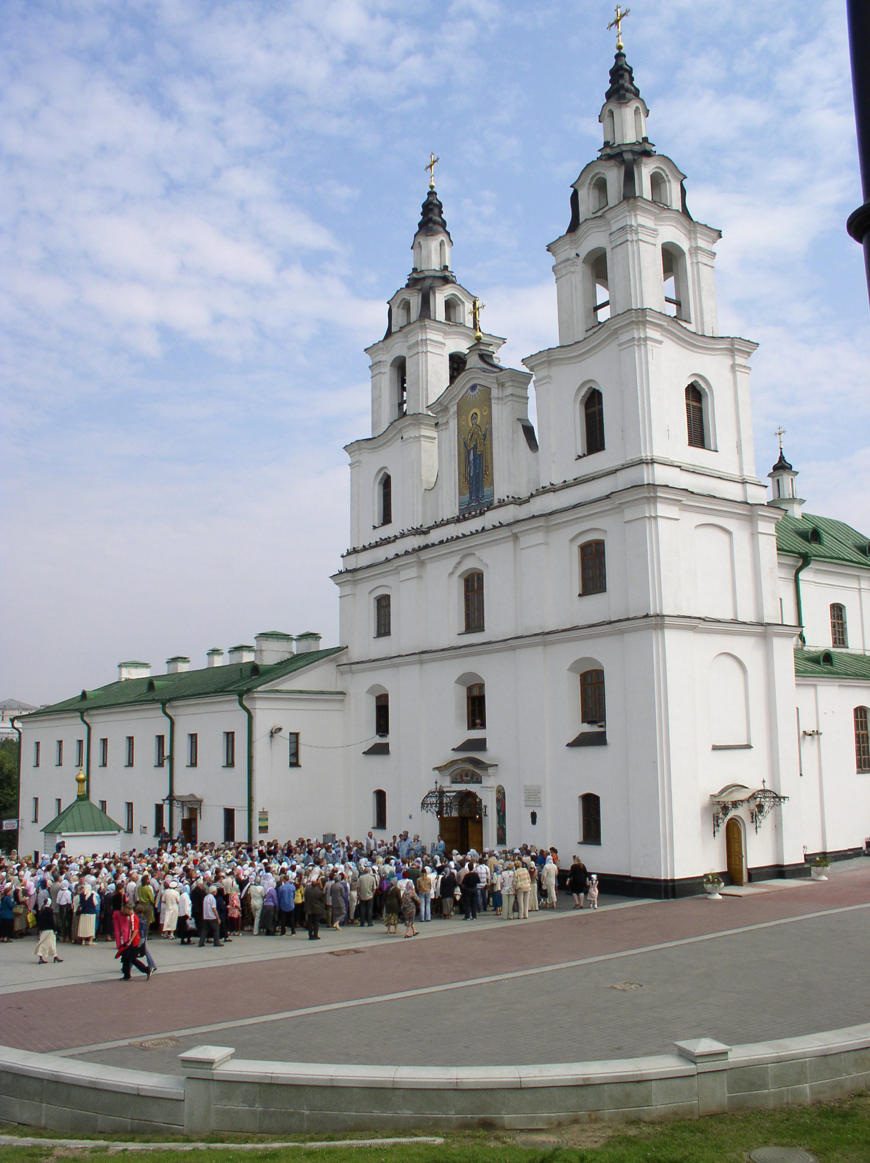 Cathedral of Holy Spirit, Minsk, Belarus.